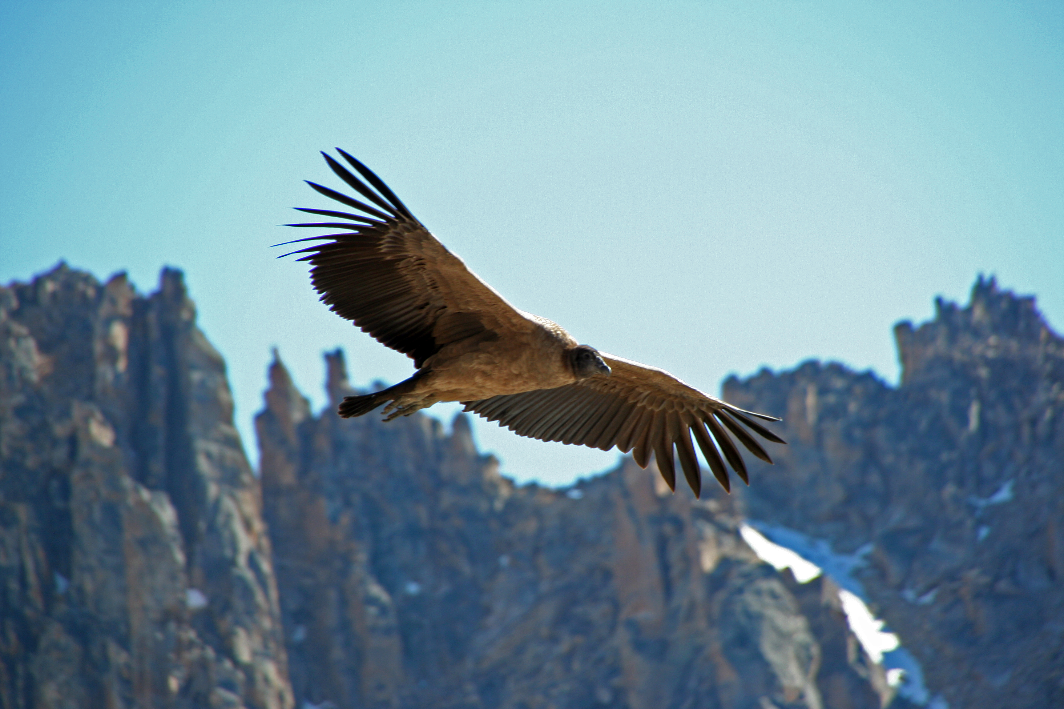 A young female andean Condor in Argentina